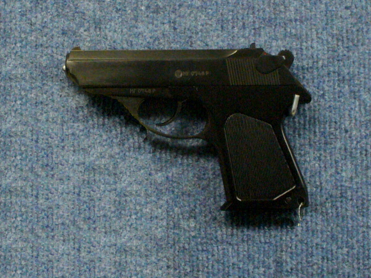 PSM pistol, Soviet/Russian pocket pistol